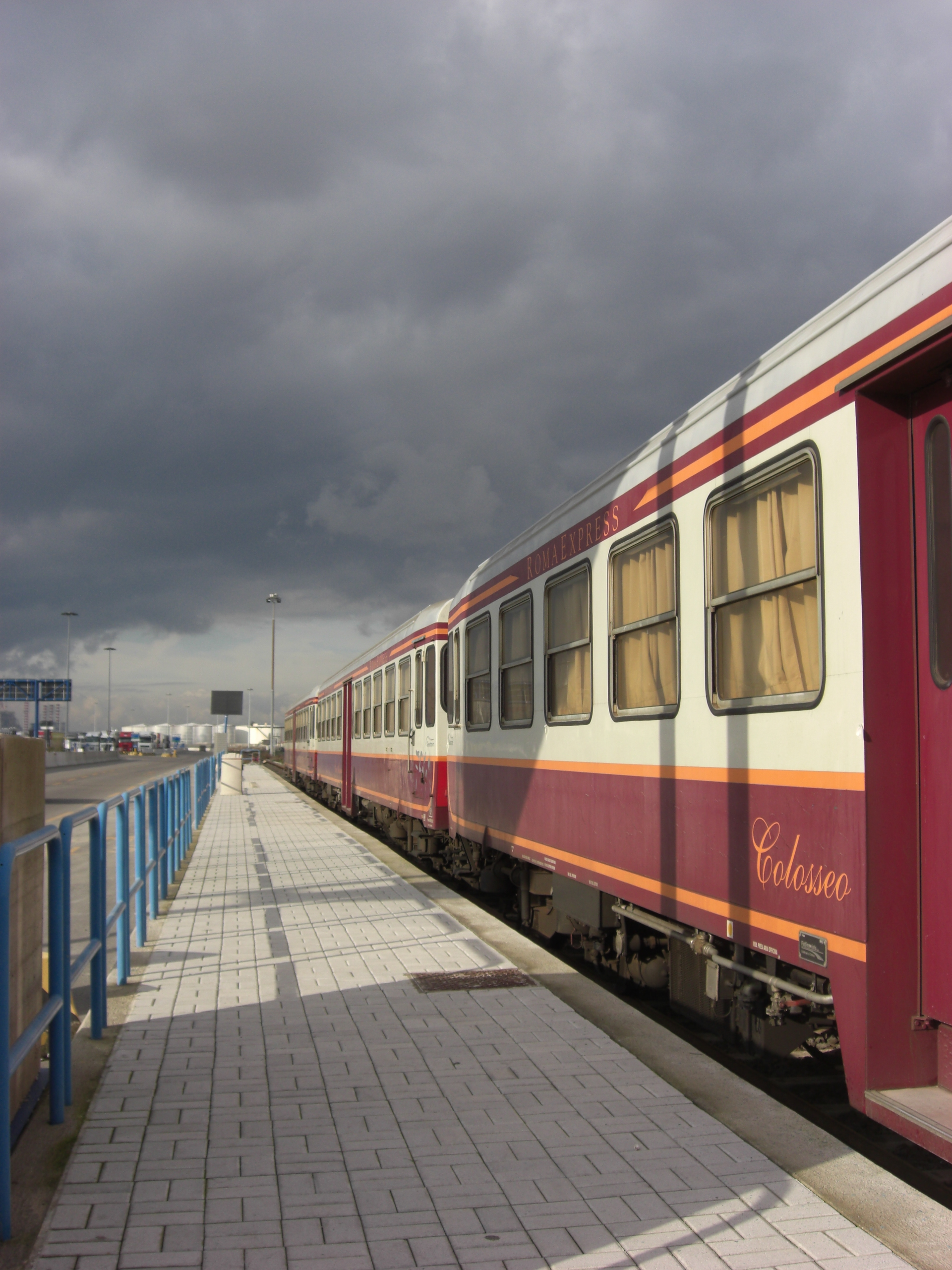 Roma Express service train "Colosseo" at Civitavecchia harbour